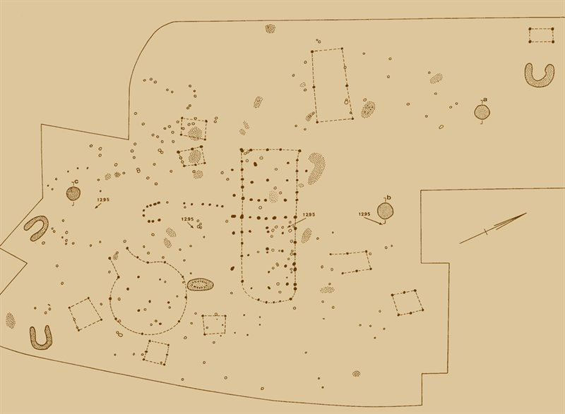 Map of excavation of Bronze Age settlement in Nijnsel, North Brabant, Netherlands. The settlement is from the early Bronze Age, around 1500 BC. The main building within the excavated portion is a farm of 17 meters by 6 meters. The outer wall consisted of poles that were connected with braid and were covered with clay. The posts within the farm will have borne the roof. A series of heavy poles on the south side of the farm probably supported a far extended roof on that side that was necessary in view of the down pouring rain that could wash away the clay there. In the long walls of the farmhouse opposite to each other there are two wide entrances forming a corridor which divided the building into a living area and a shed or barn. Around the farm there were numerous outbuildings. The most notable was a circular building that was probably a sheepfold. The other buildings are square or rectangular sheds and called "Spiekers": constructions of four or six poles with a raised floor for the storage of grain and hay. Northwest of the main building was a large barn of 7 by 3.5 meters. The many other posts will have served a variety of small buildings that belong to a farm like racks, an apiary, doghouse etc. The dark spots on the map were pits which were probably used for manure or the storing of winter silage.